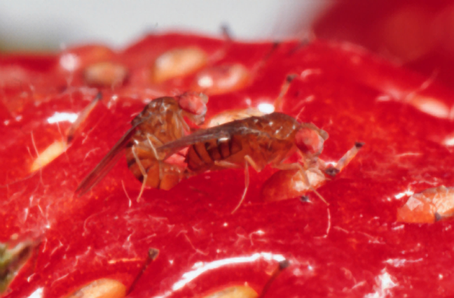 Australian fruitflies mating on a strawberry.